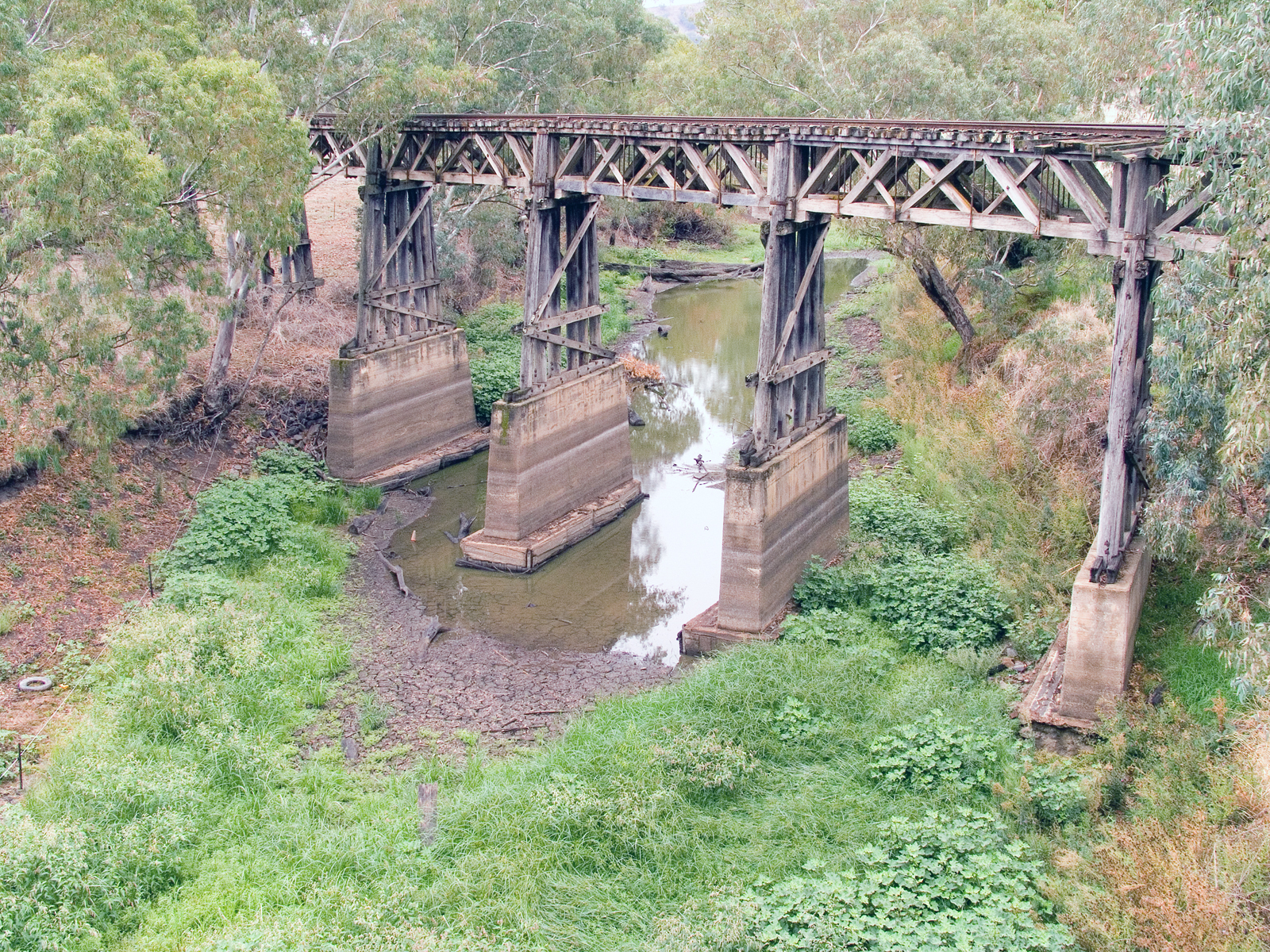 Gundagai old railway bridge leading into Railway station